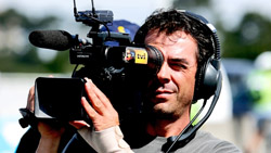 Porto Bike Tour (Cropped version of Image:TVI cameraman.jpg)